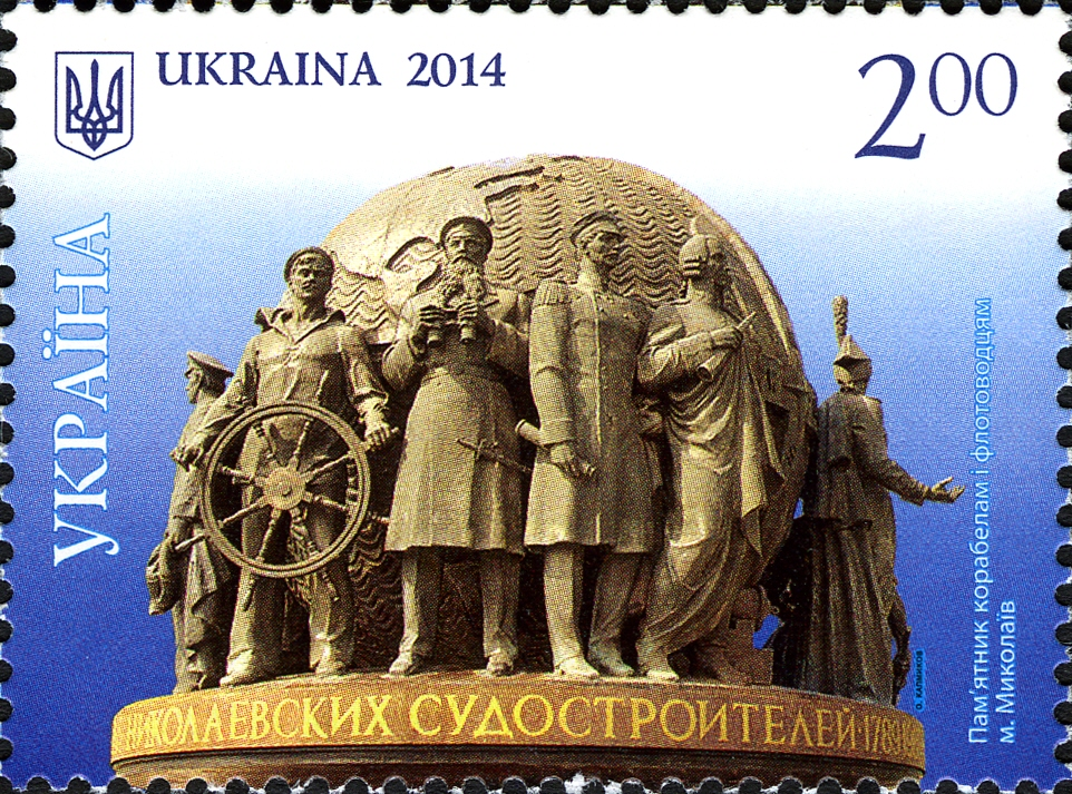 Ukrainian stamp, 2014